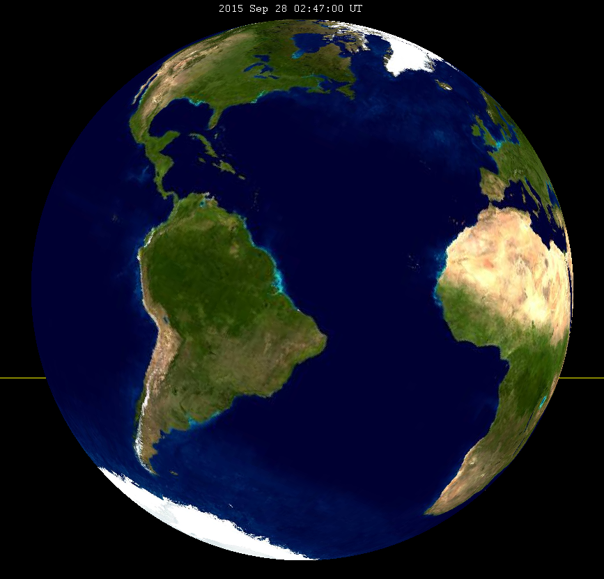 September 2015_lunar_eclipse view of earth The orientation of the earth as viewed from the center of the moon during greatest eclipse. thumb